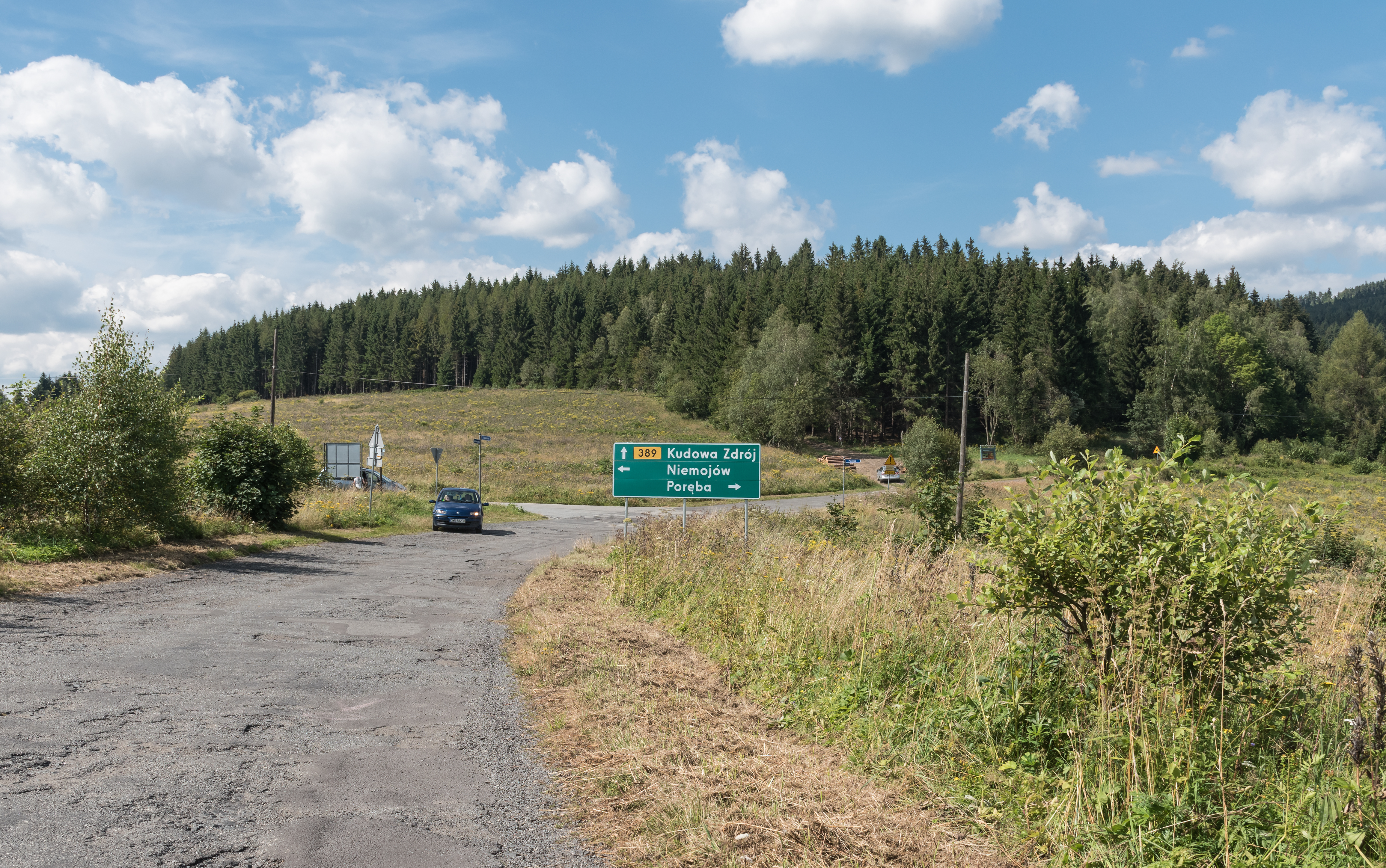 Nad Porębą Pass, Góry Bystrzyckie, Sudetes